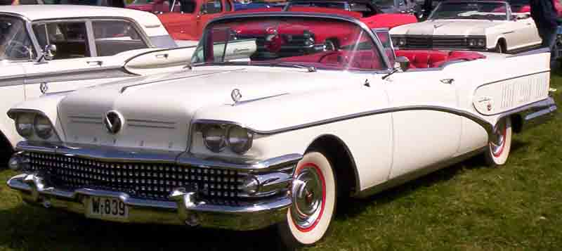 1958 Buick Limited Series 700 Model 756 2-door Convertible